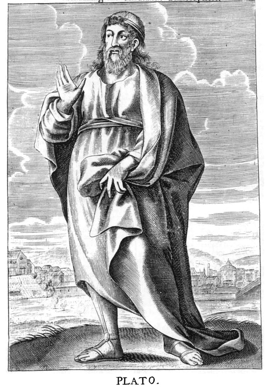 Plato, ancient Greek philosopher. From Thomas Stanley, (1655), The history of philosophy: containing the lives, opinions, actions and Discourses of the Philosophers of every Sect, illustrated with effigies of divers of them.